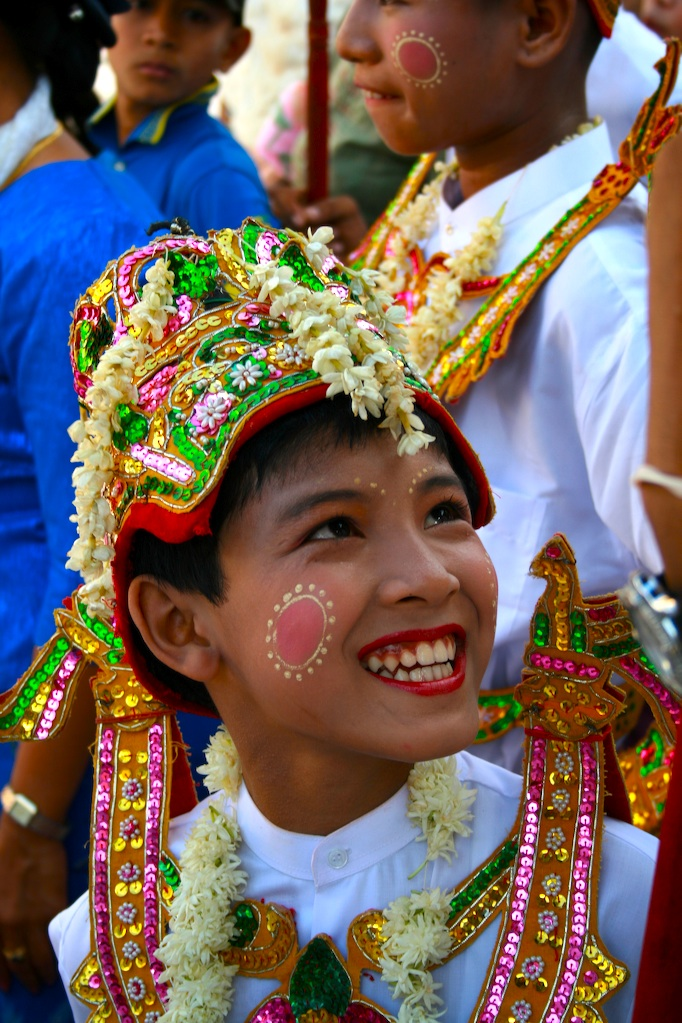 Shinpyu